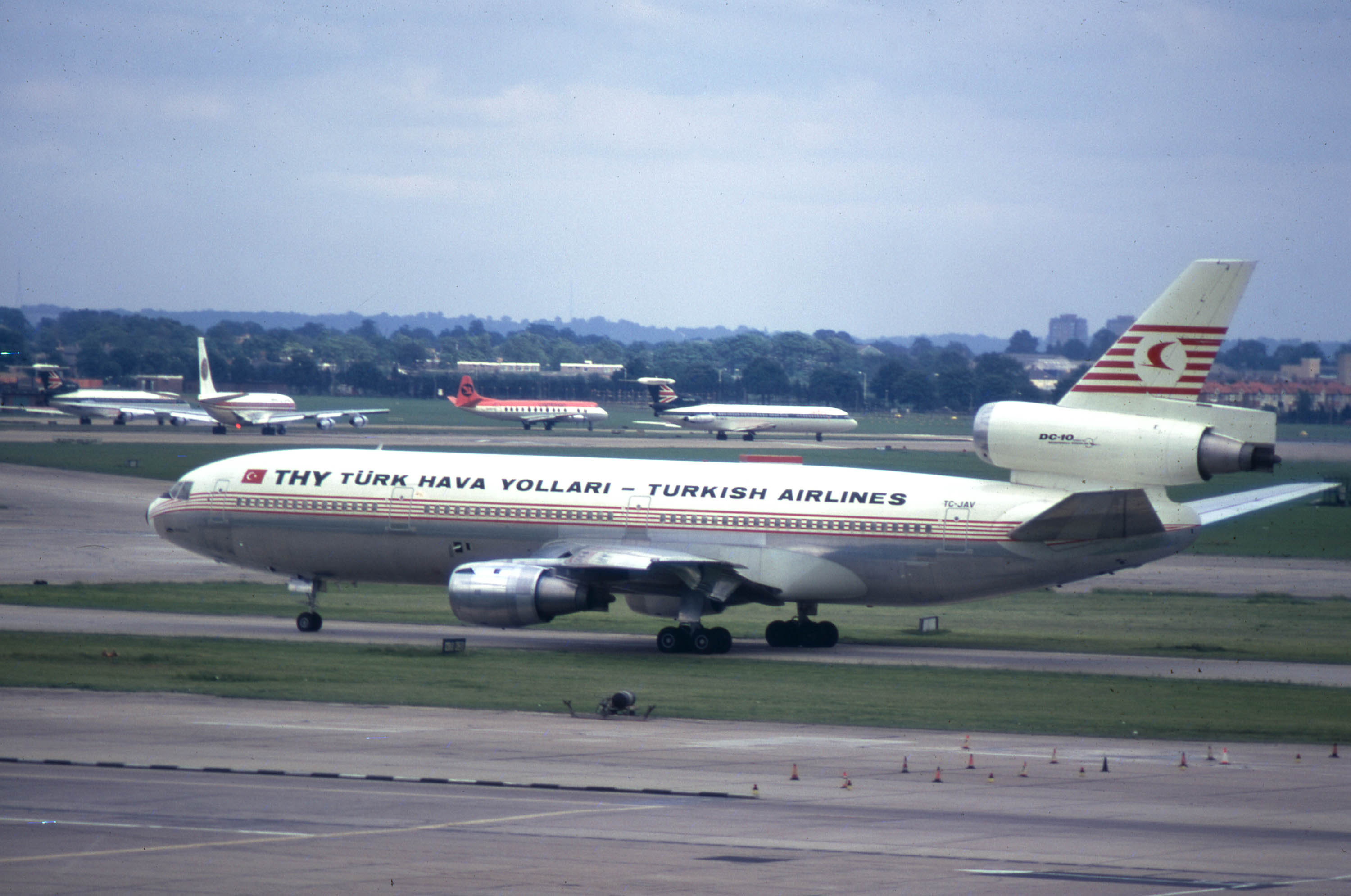 Ill fated "Ankara". Crashed March 3, 1974. Seen here in Summer 1973 at LHR.